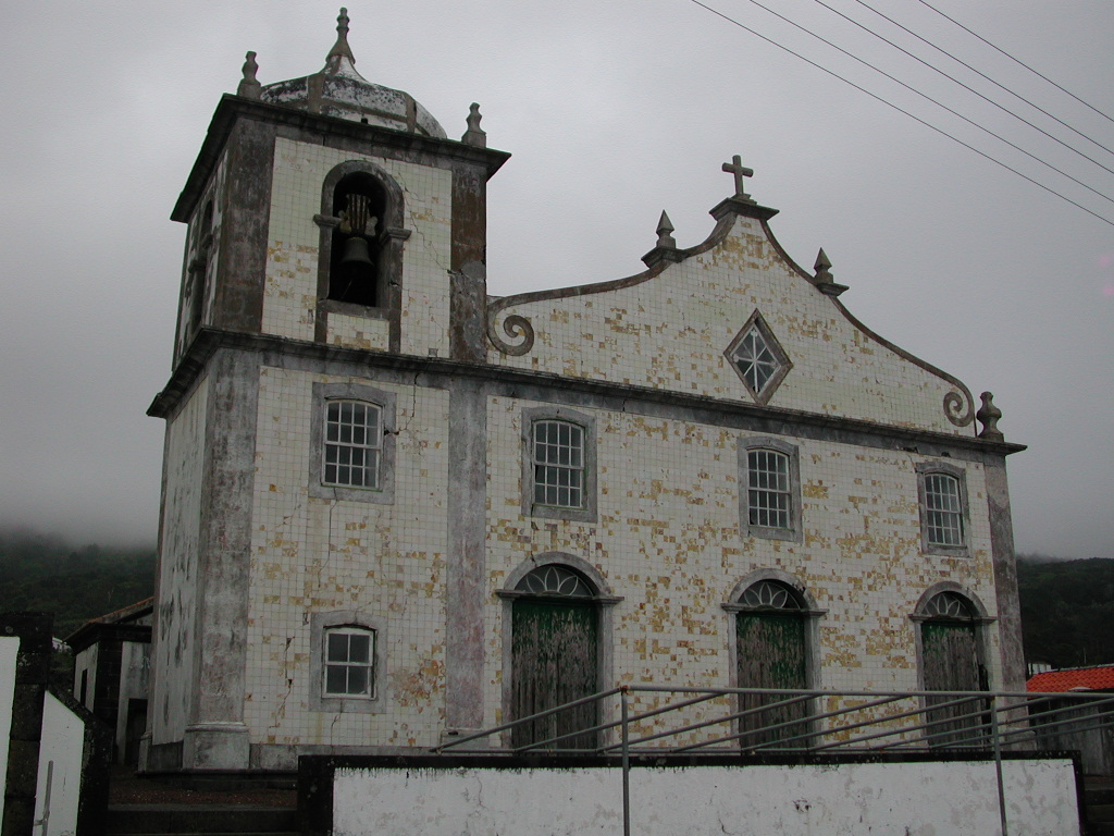 The pitted and used façade of the Church of São João Baptista, São João, Lajes do Pico, Pico (Azores), Portugal